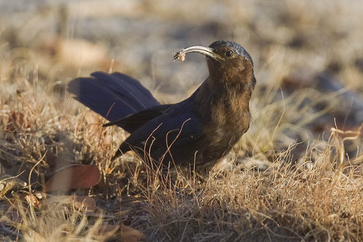 A female Common scimitarbill in Etosha National Park, Namibia. Females of the nominate race have a chestnut brown throat as shown.